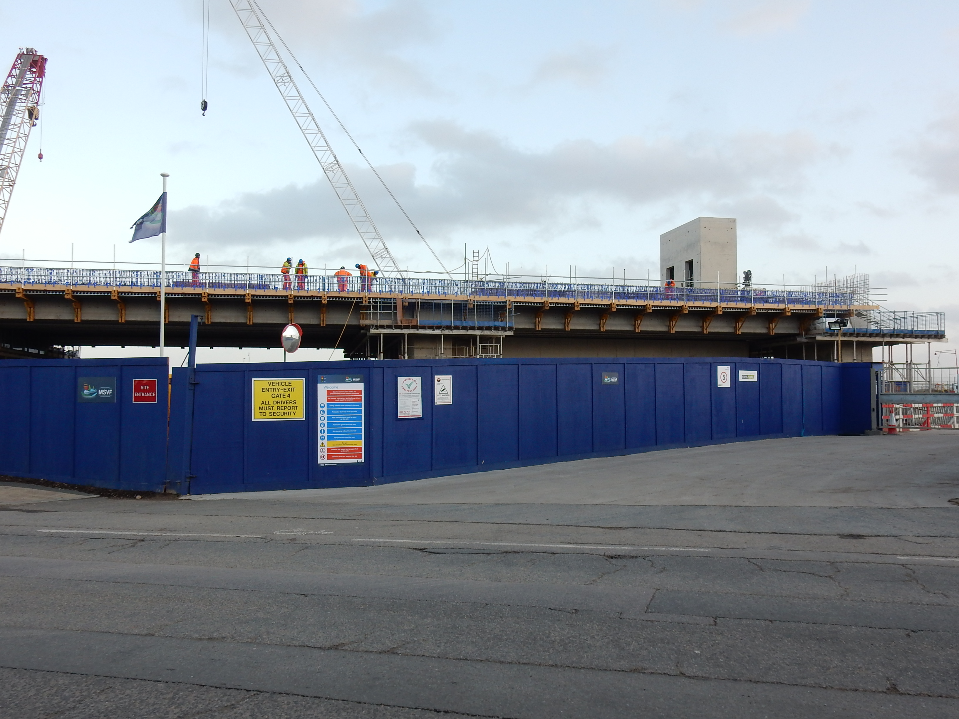 Barking Riverside station under construction in December 2019.